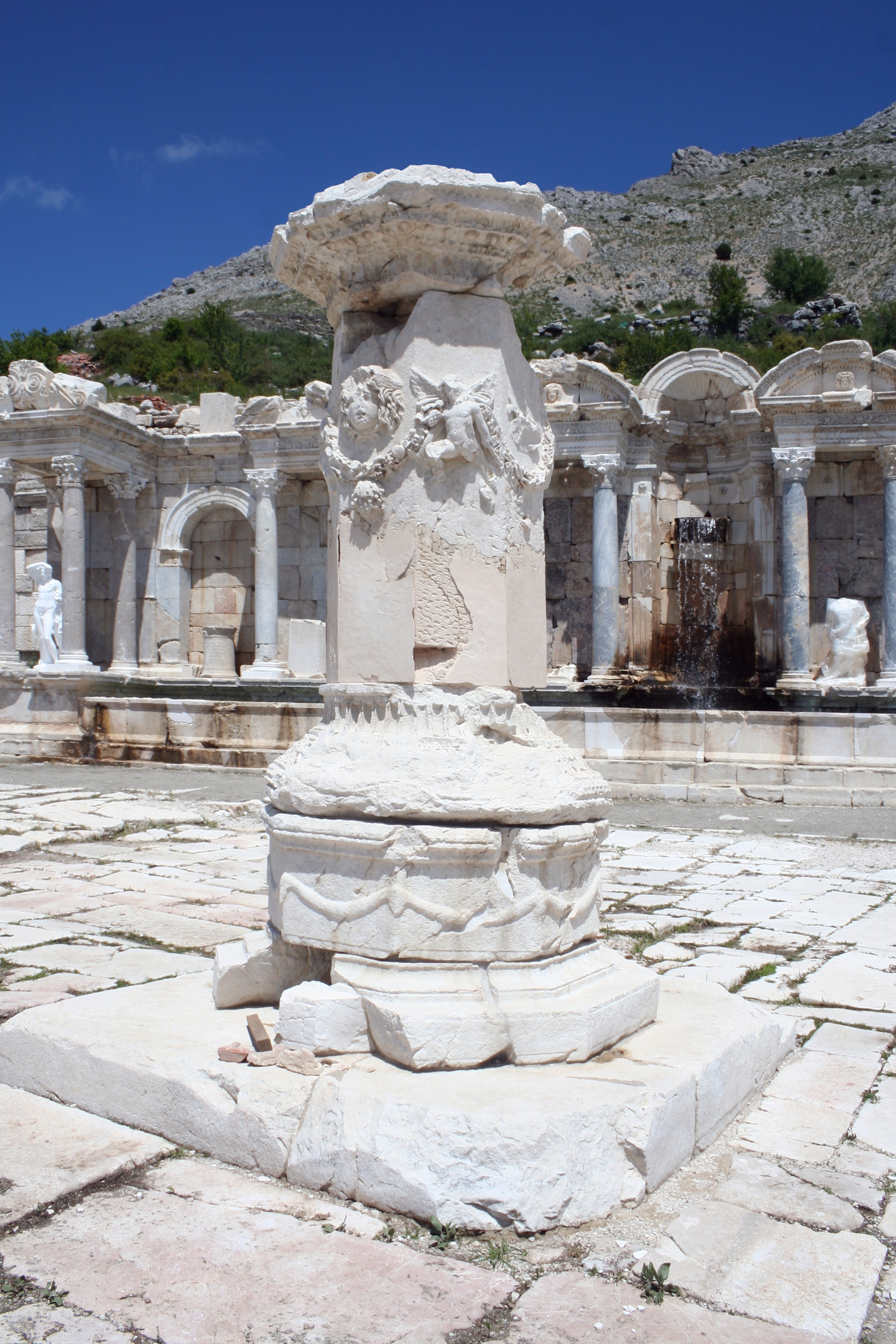 Sagalassos - Statue on Upper Agora